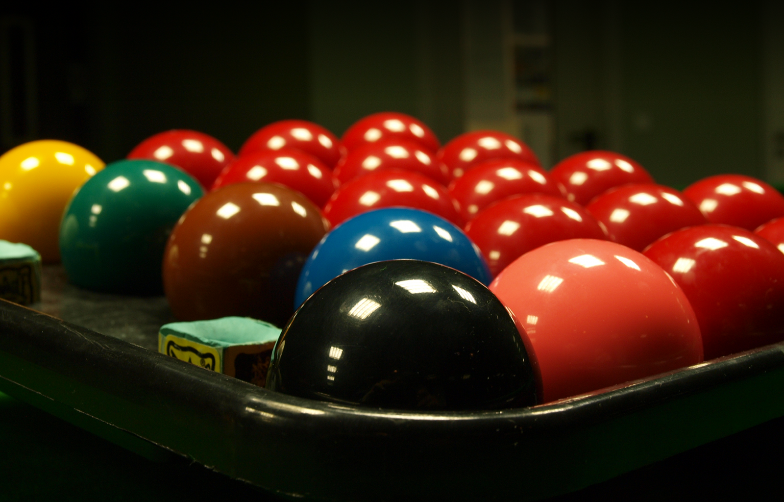 A complete set of snooker balls